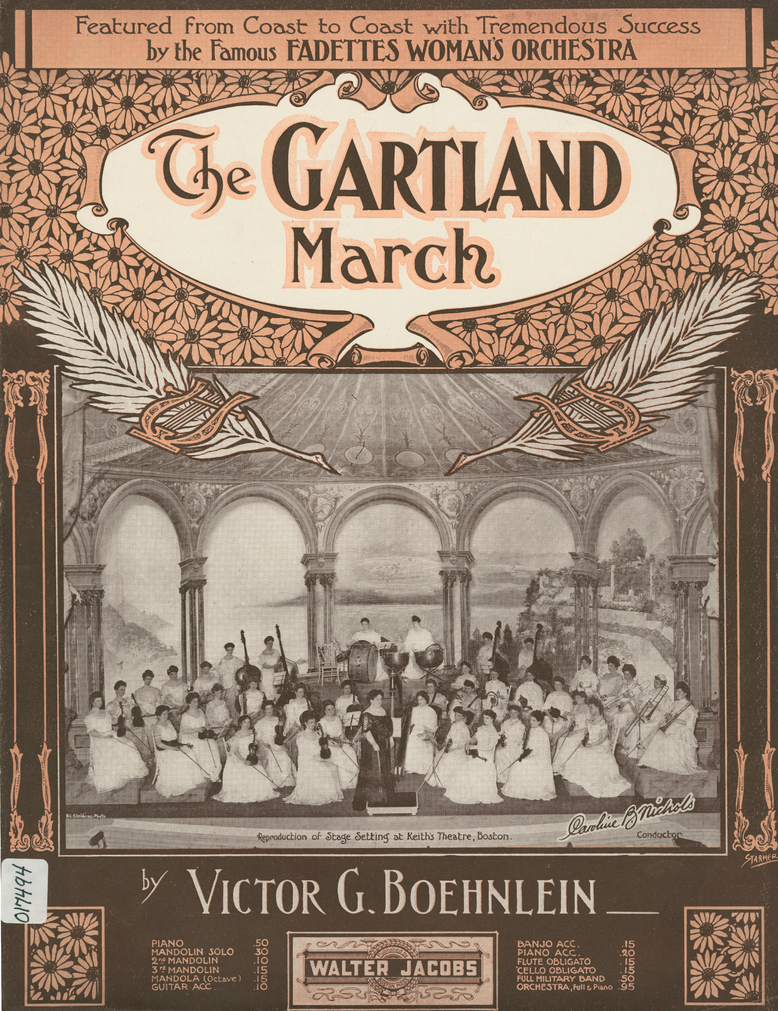 The Gartland March, by Victor G. Boehnlein, 1907 "Featured from Coast to Coast with Tremendous Success by the Famous FADETTES WOMEN'S ORCHESTRA"